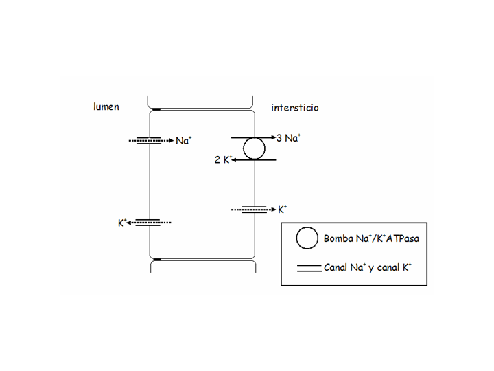 Model of cell transport in sodium reabsorption and potassium secretion in a principal cell (P cell) sensitive to aldosterone from the distal convoluted tube of a vertebrate nephron